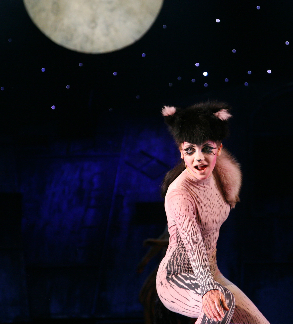 Kaja Mianowana as Promyczek (Jemima) in the musical "Cats" in Roma Musical Theatre in Warsaw, 1 December 2007.